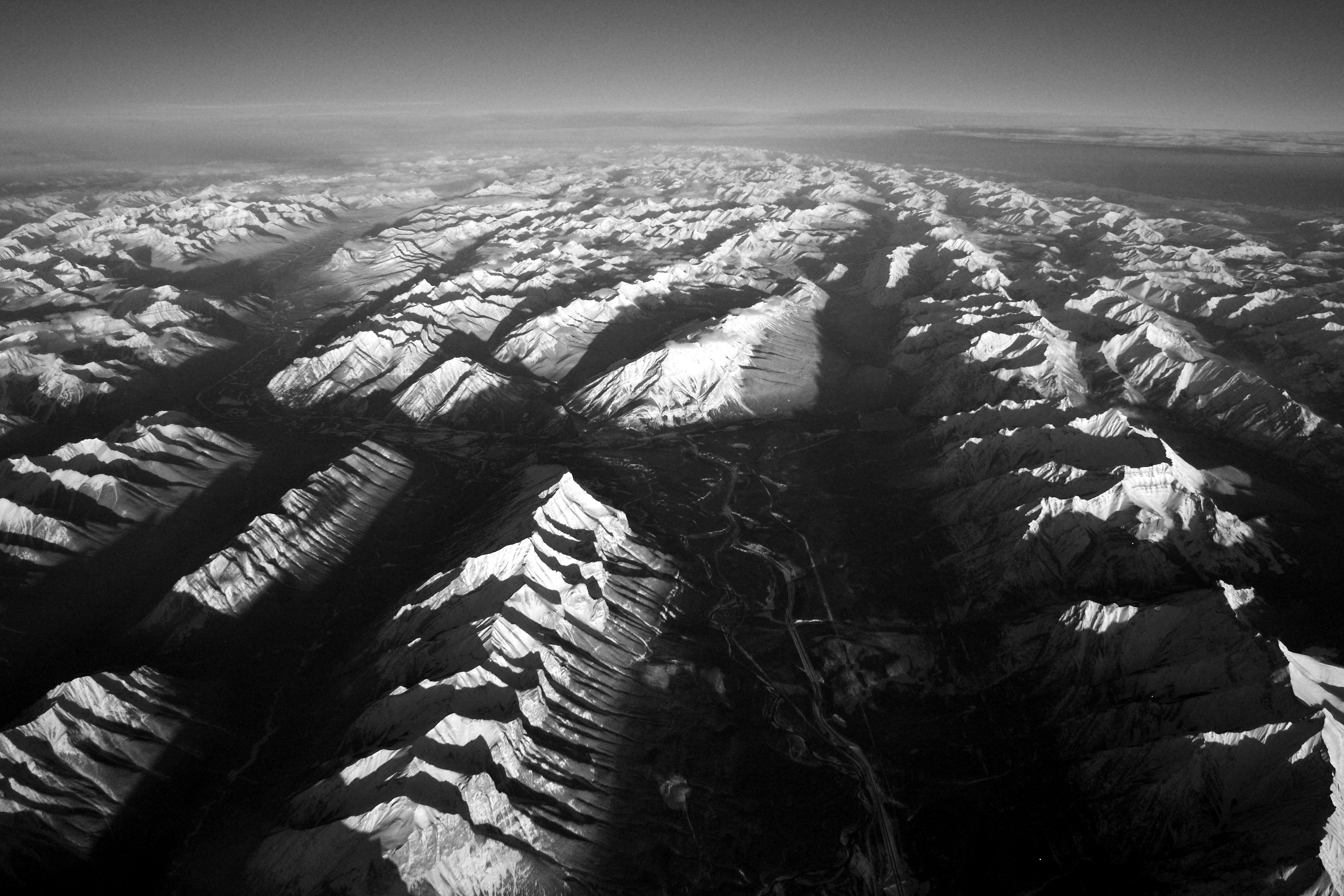 Canadian Rockies